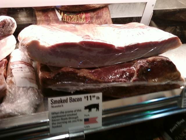 Packaged smoked bacon for sale at the gourmet food retail store A Southern Season in Chapel Hill, North Carolina.